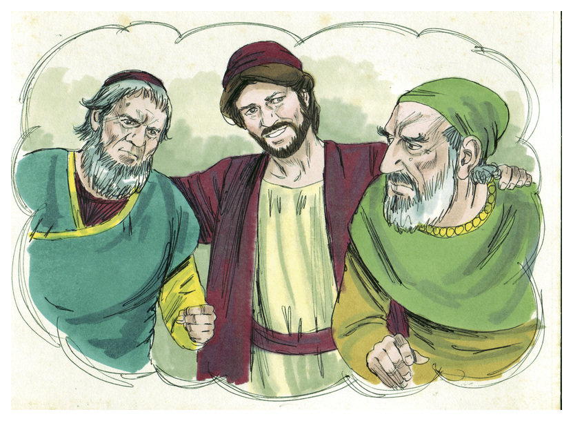 Biblical illustration of Second Epistle to Timothy Chapter 2